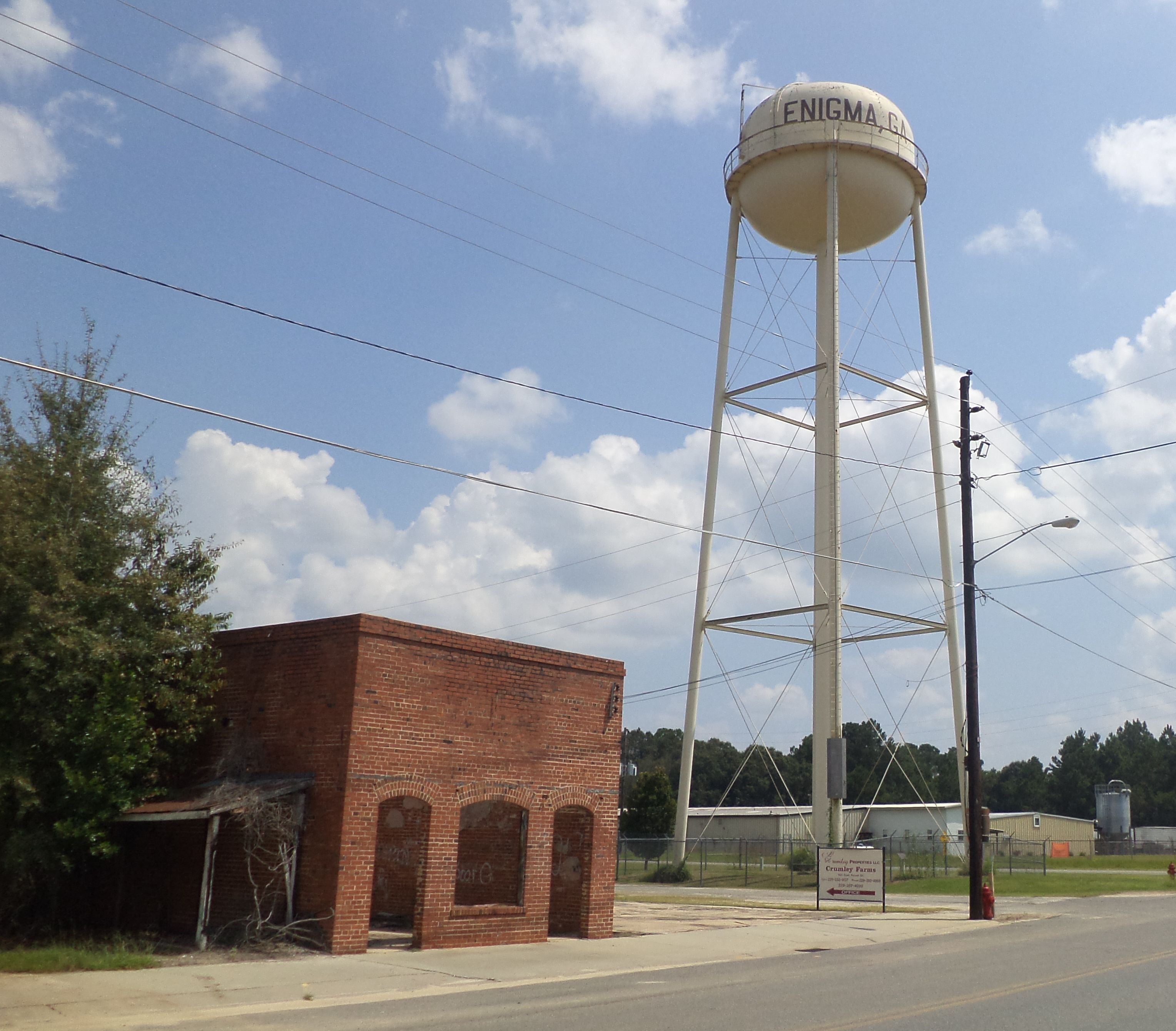 Water tower in Enigma, Georgia